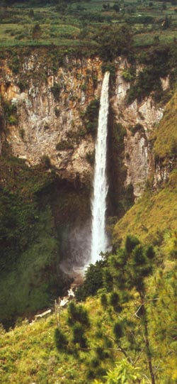 The Sipisopiso waterfall at Lake Toba, seen from the east.